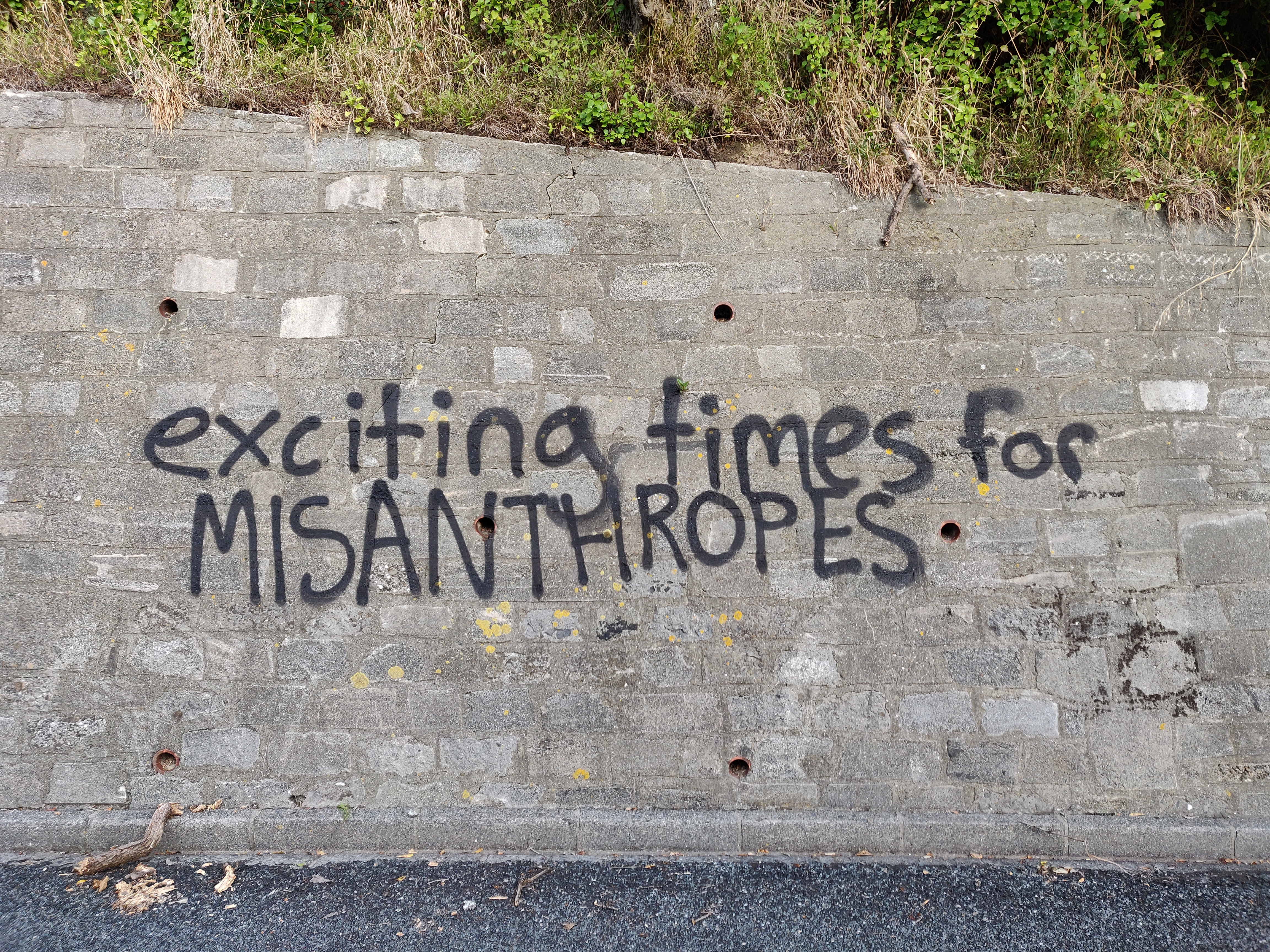 Graffiti which reads "Exciting times for MISANTHROPES" in Island Bay during the COVID-19 lockdown.